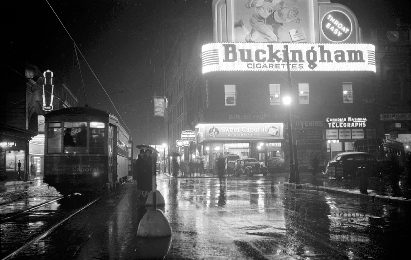 View taken in the rain, towards the east of Saint Catherine Street West at the intersection of Phillips Square in Montreal. We see the No.41 tram stopped to pick up passengers. At the back of the tram, we see a billboard for cigarettes "Sweet Caporal". We also perceive stores "American Drug Store", "Canadian National Telegraph" and billboards including cigarettes "Buckingham". Montreal (Canada).